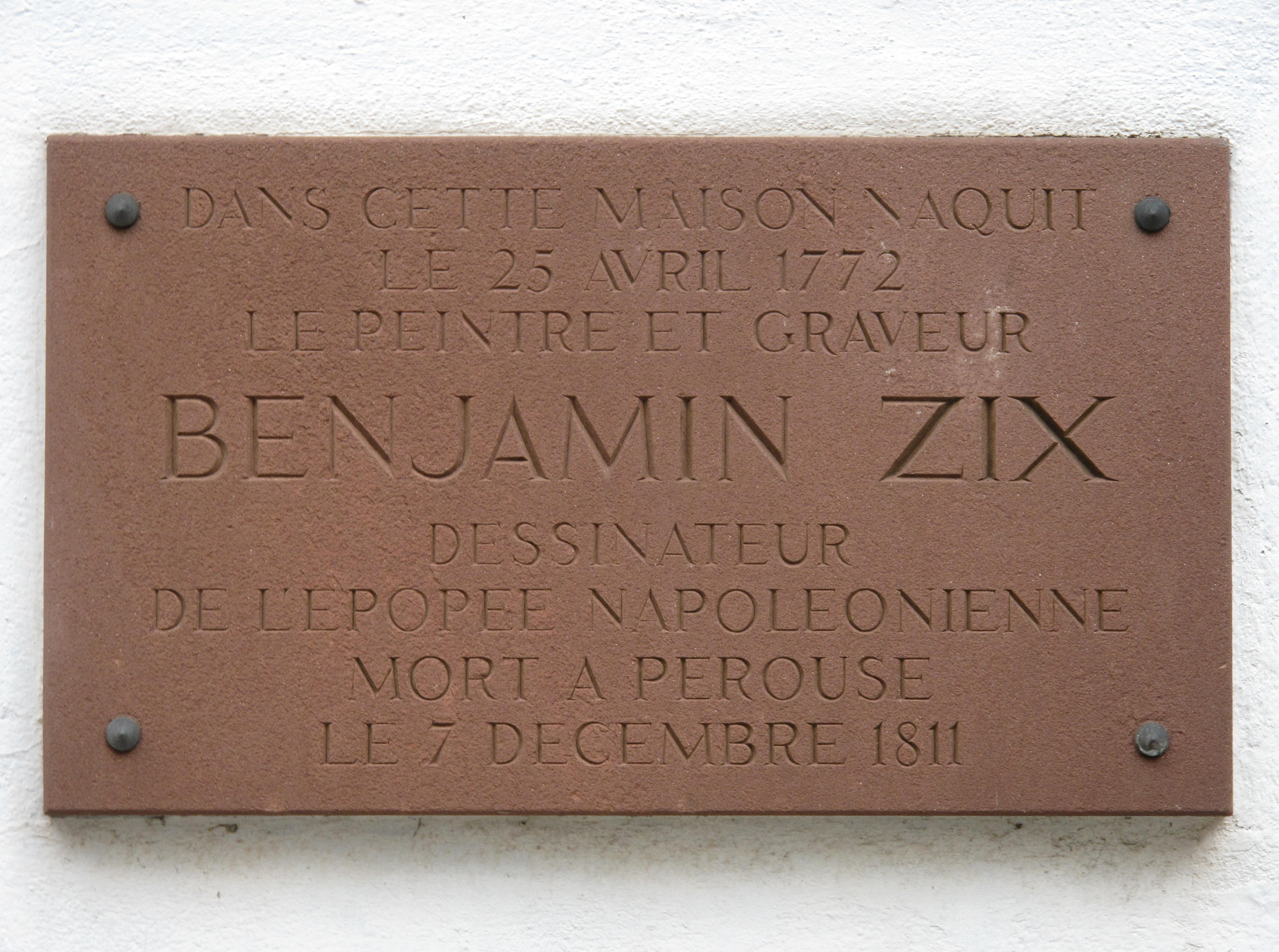 Plaque on the house where was born Benjamin Zix, painter of the french Empire : rue des Moulins, Strasbourg, France